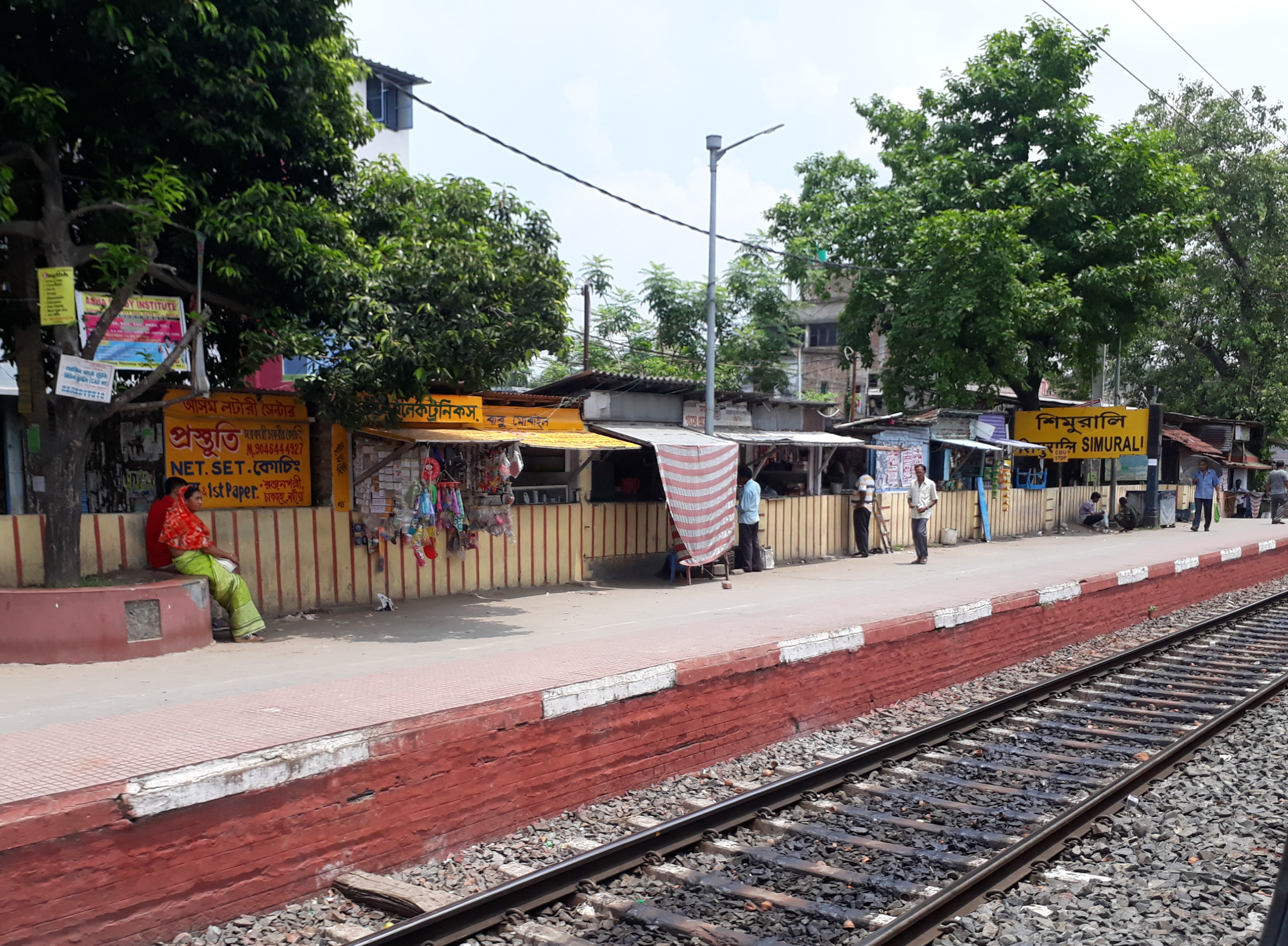 Simurali railway station on Sealdah Ranaghat main line in Nadia, West Bengal